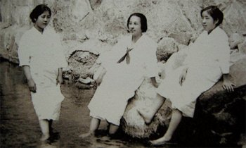 Go Myungja, Ju sejuk, Heo Jungsuk, Korean indefendunce movements and communist, Feminists